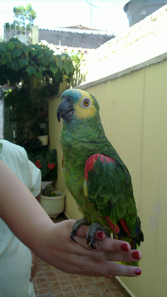 A pet Blue-fronted Amazon in Sao Paulo, Brazil.